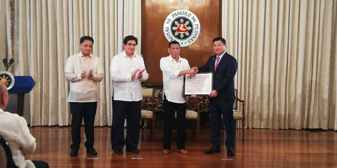 President Rodrigo Duterte leads the awarding of the Certificate of Public Convenience and Necessity (CPCN) to the Mislatel Consortium.